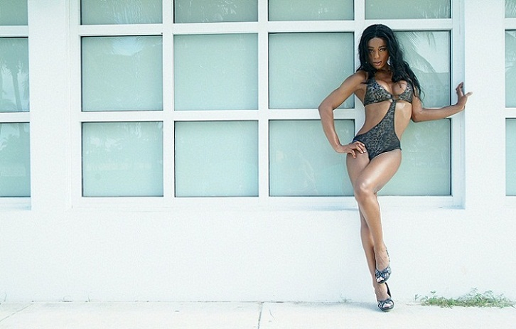 Miami,Fl